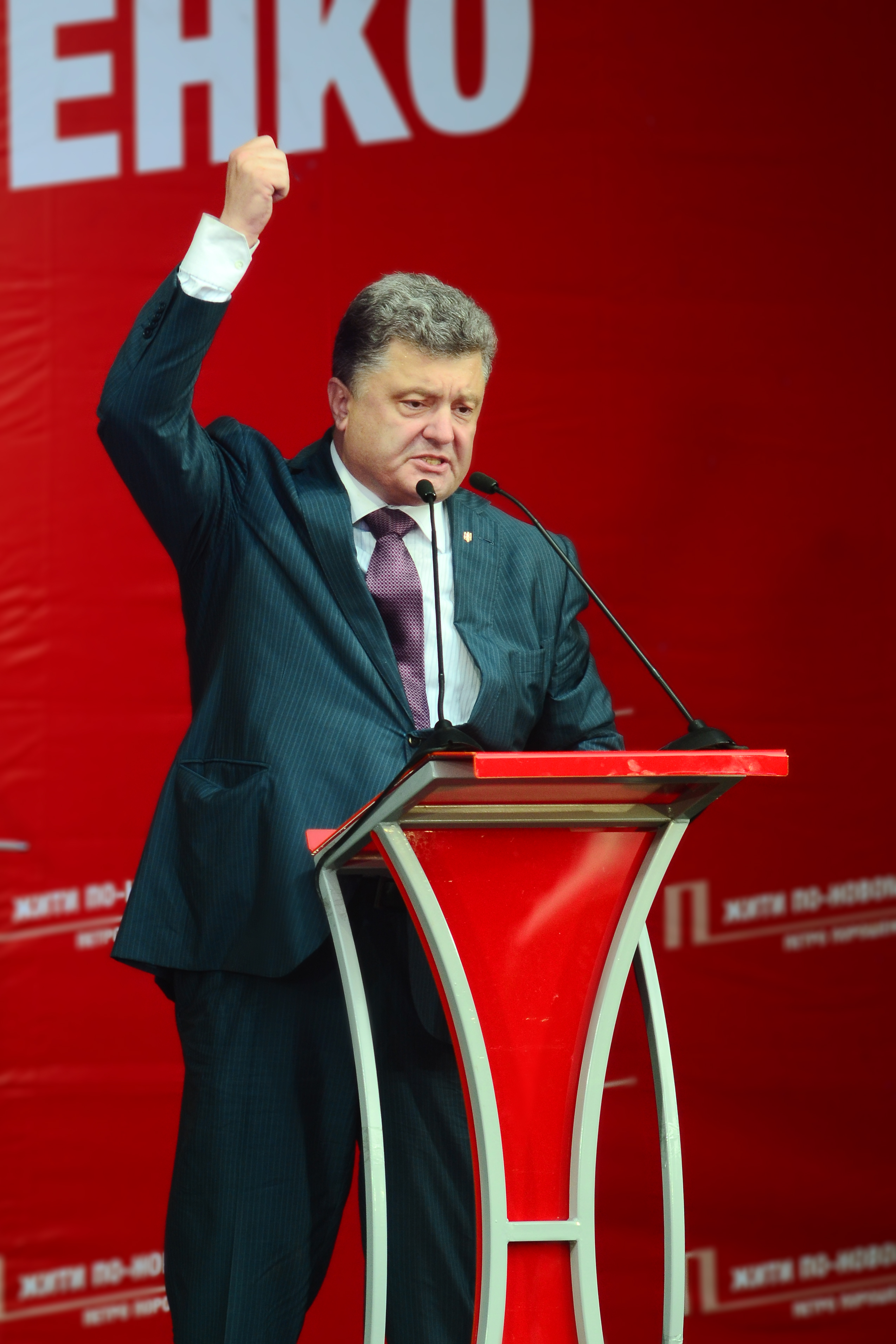 Meeting with presidential candidate Petro Poroshenko in Lviv, May 22.